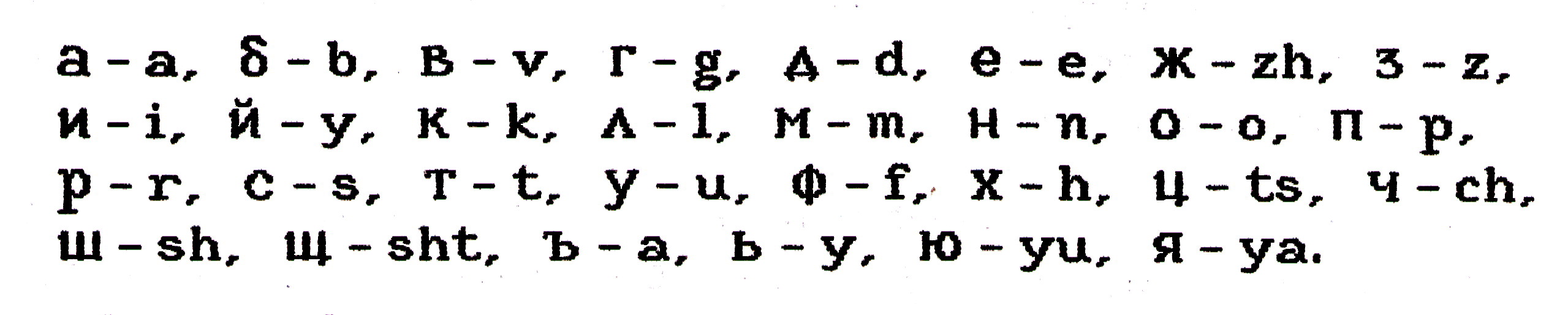 The transliteration table of the Streamlined System for the Romanization of Bulgarian, from the original 1995 document introducing the system.